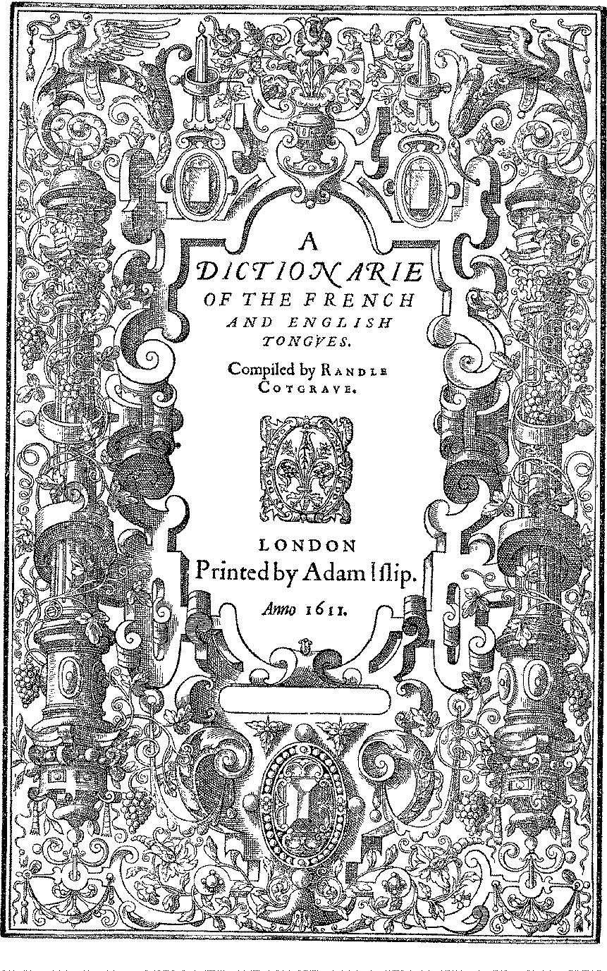 Dictionary of French and English Language compiled by Randle Cotgrave in 1611.